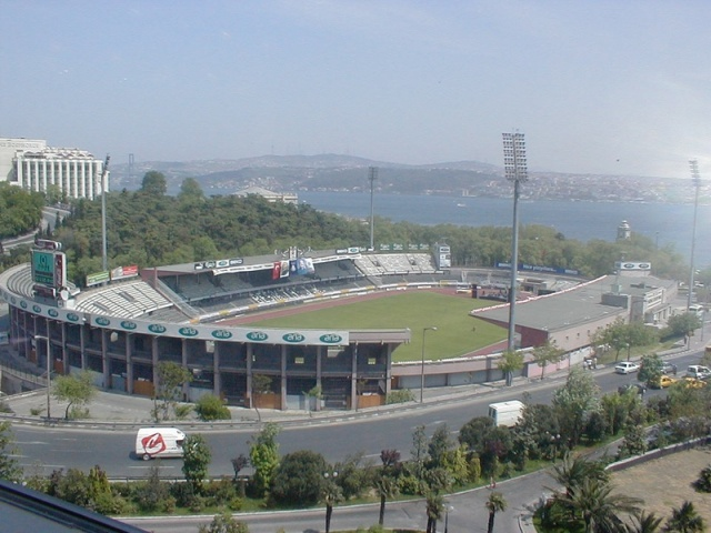 Image of Inonu stadium in istanbul where Besiktas plays their games